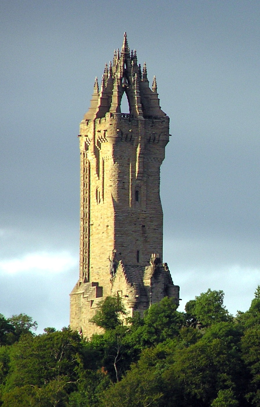 Cropped version of The Wallace Monument near Stirling, Scotland.